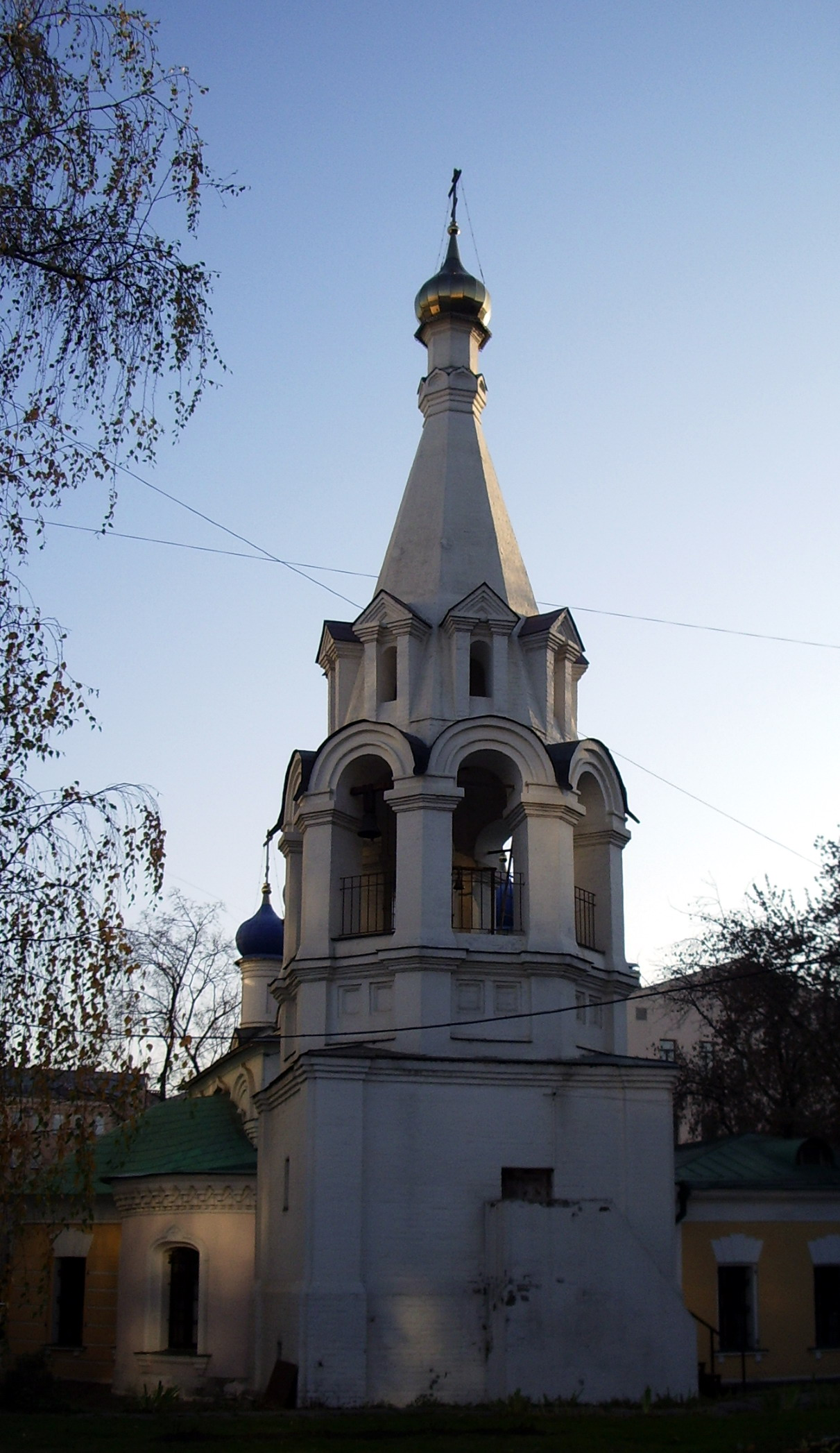 Church of Theodore the Studite, Noscow, Nikitsky Boulevard, 25a. Built 1626, restored 1986-1995.